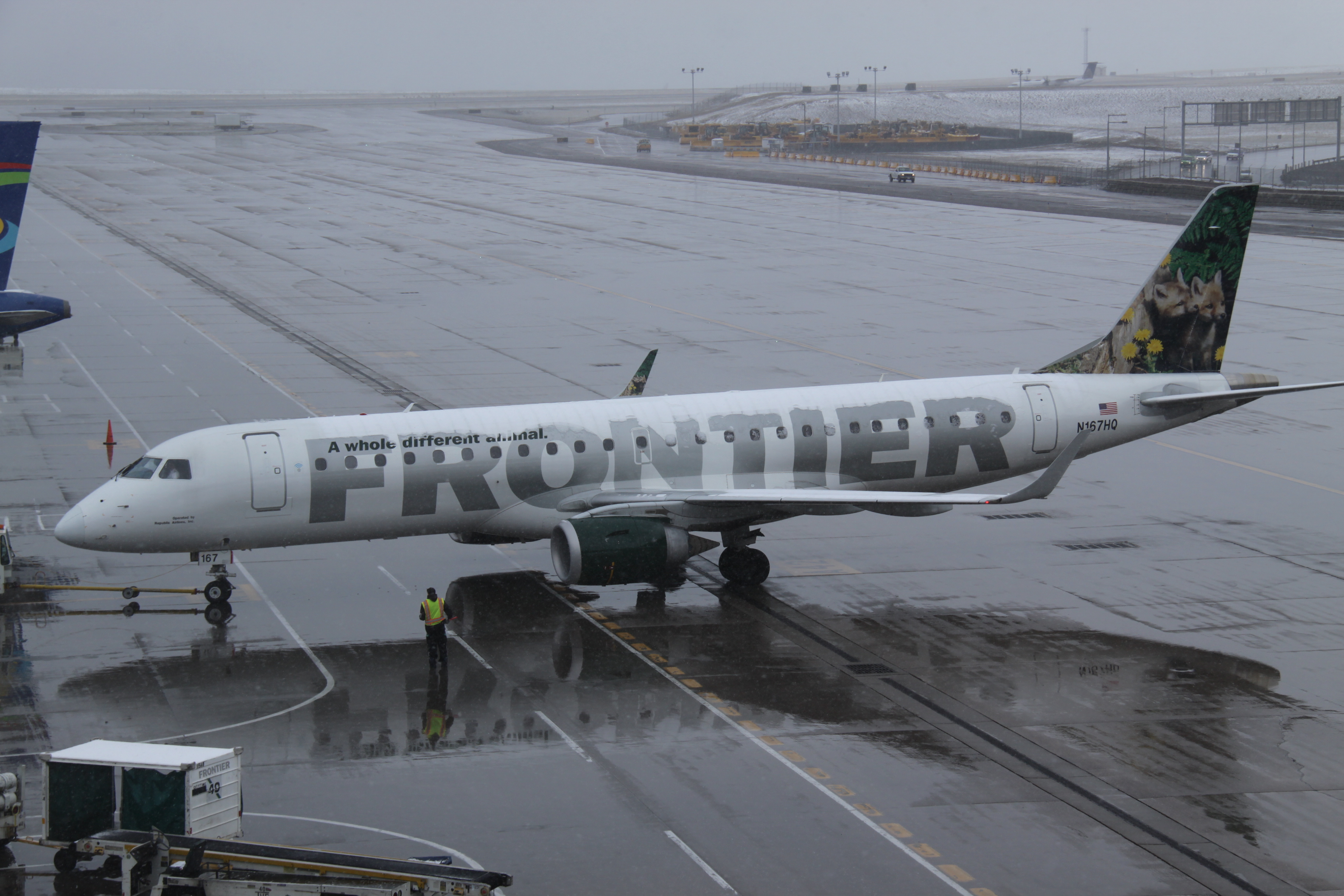 At Denver International